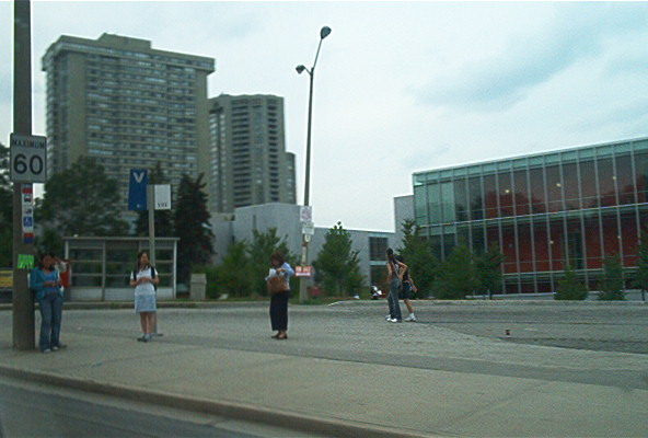 Seneca Hill Vivastation. Seneca College's Newnham Campus is behind the Vivastation. Photo taken and uploaded.